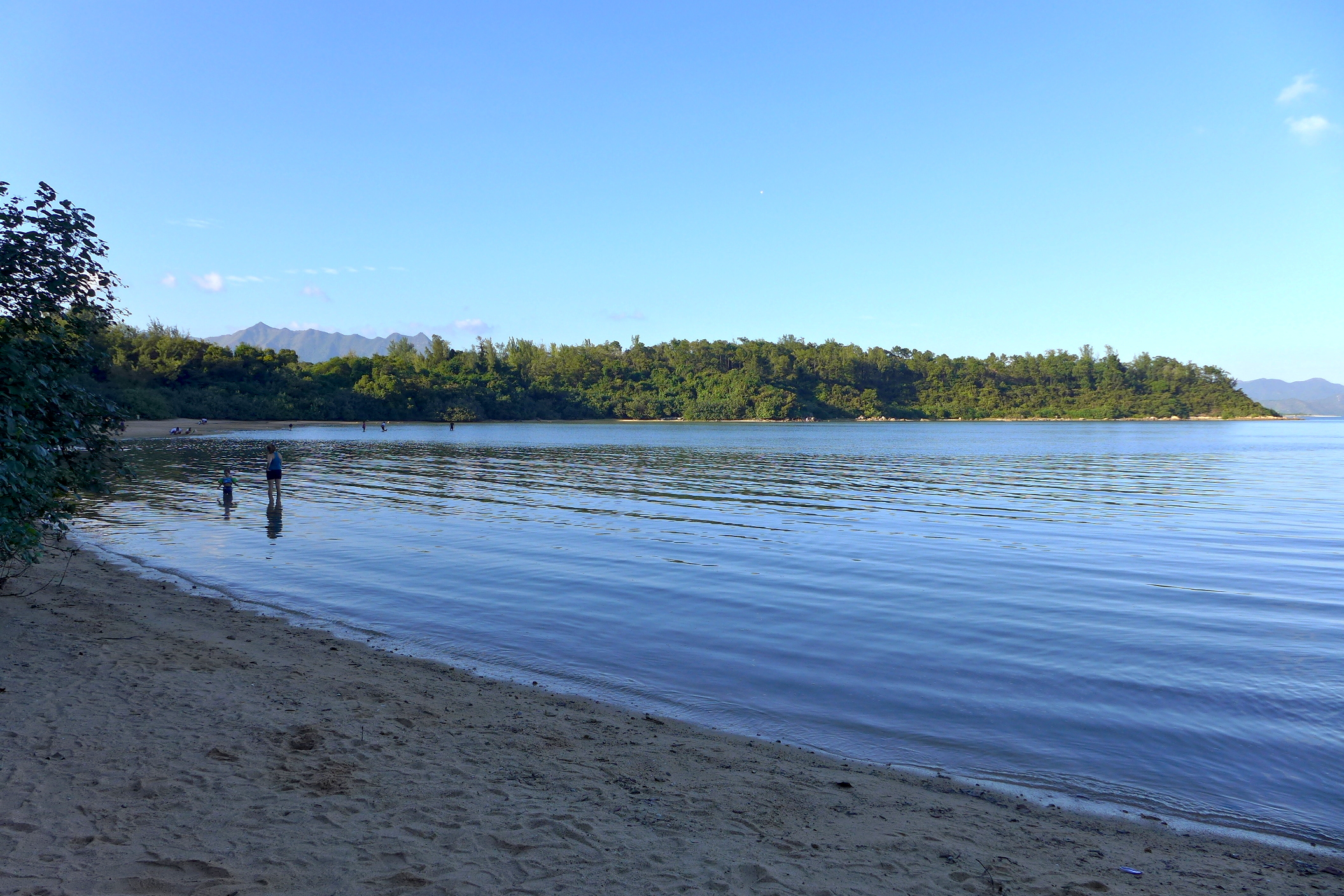 Starfish Bay